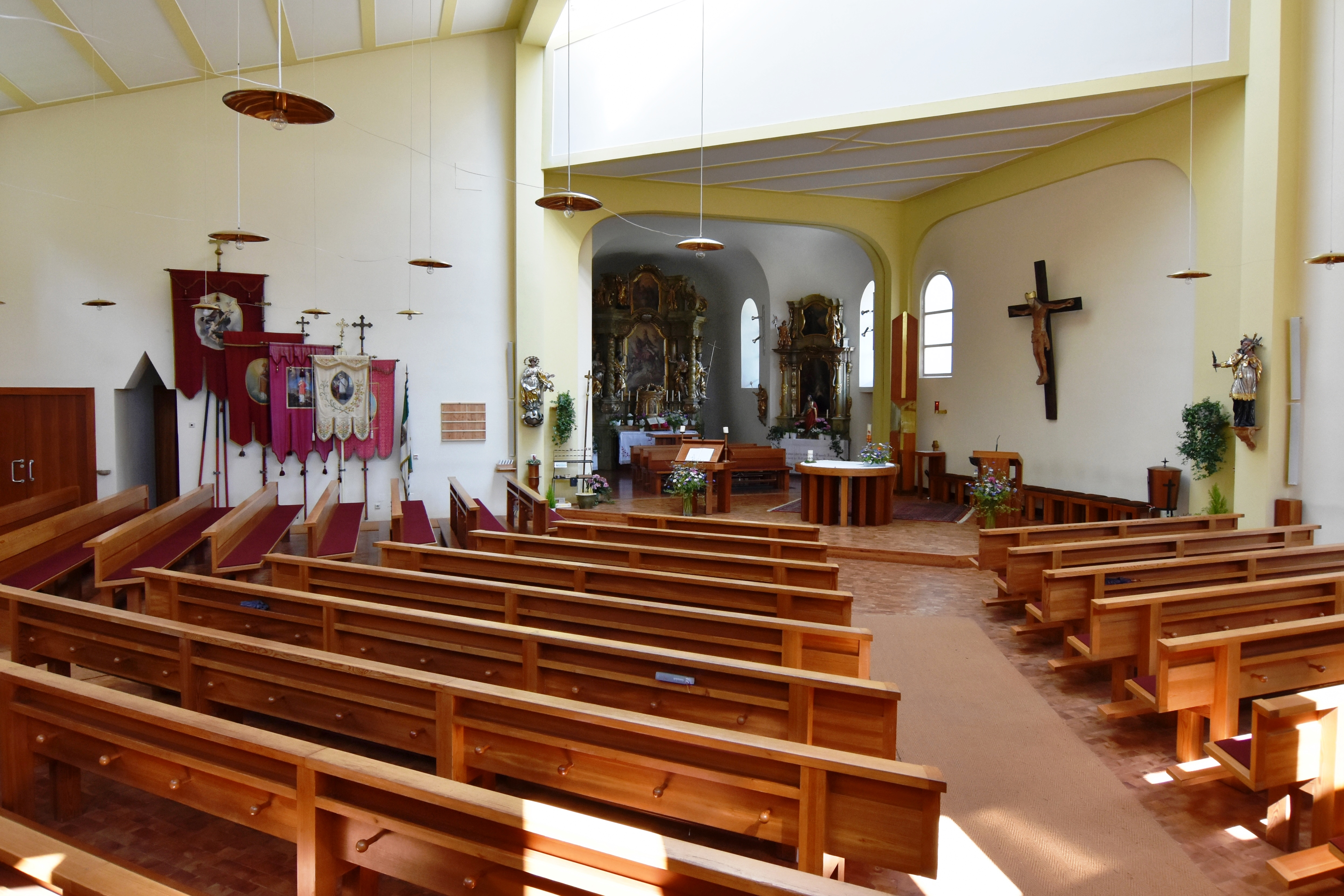 Church Pfarrkirche Unternberg - Interior